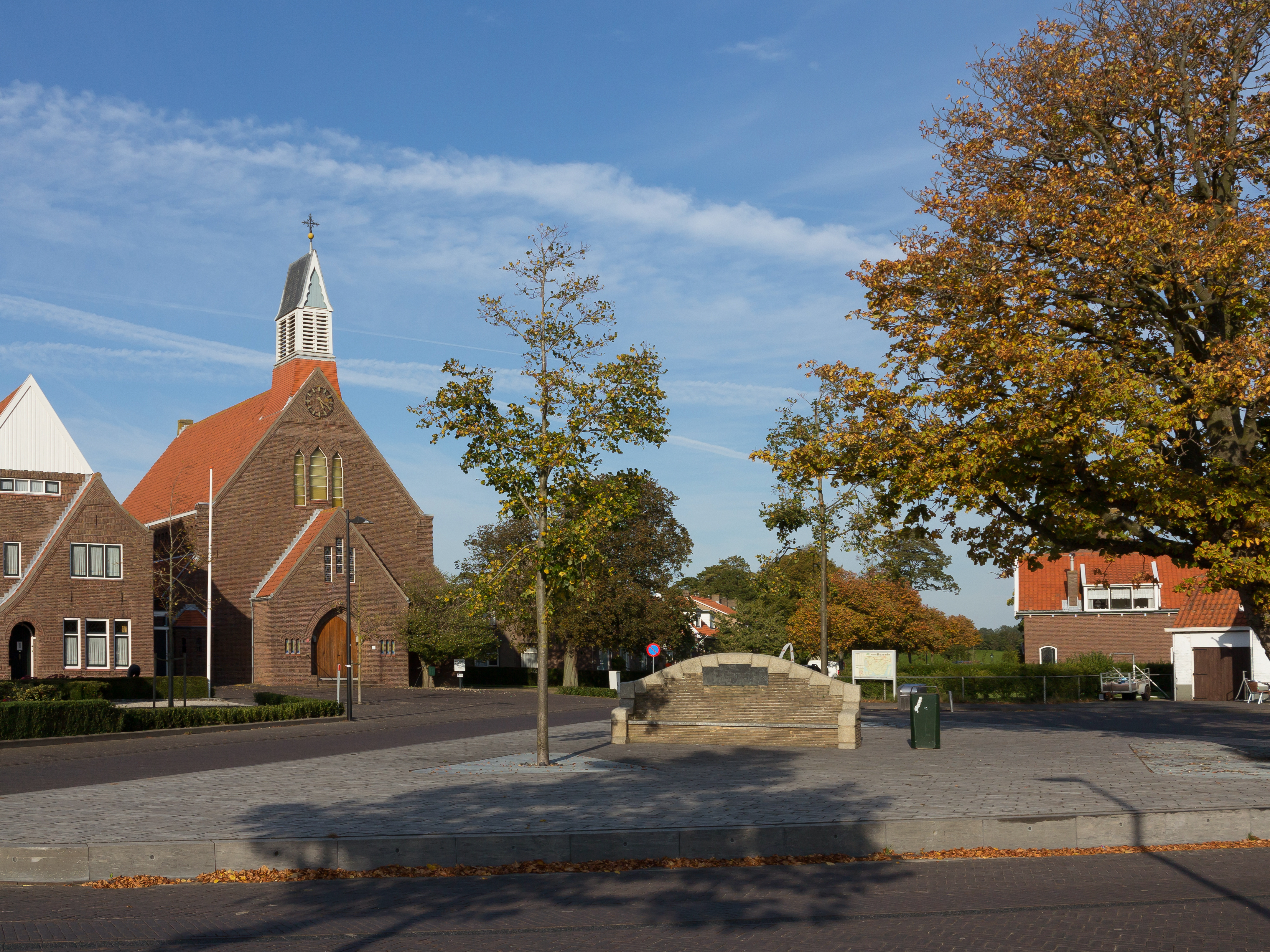 Lewedorp, catholic church in the street